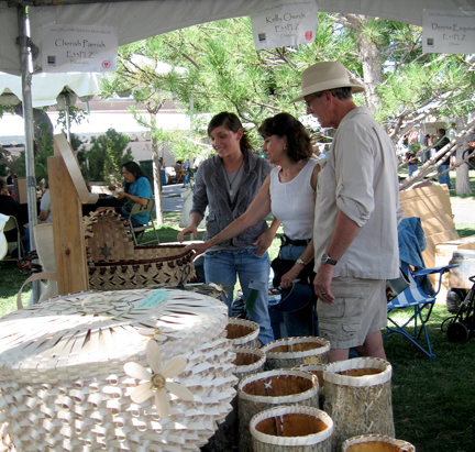 Cherish Parrish (of the Gun Lake Band Potawatomi) explains her basketry to visitors at her Indian Market booth, Santa Fe, New Mexico